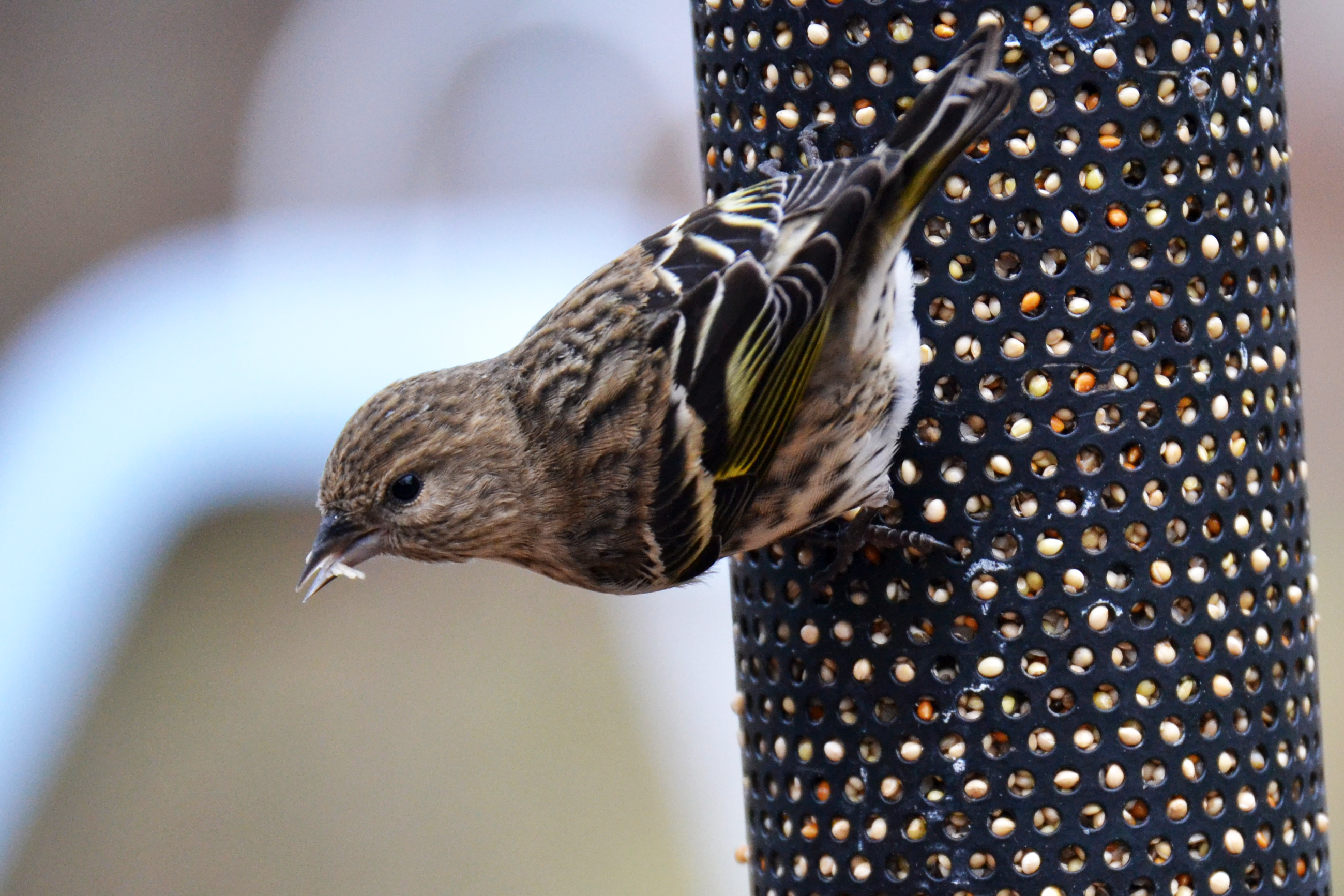 Fairfield Township Backyard